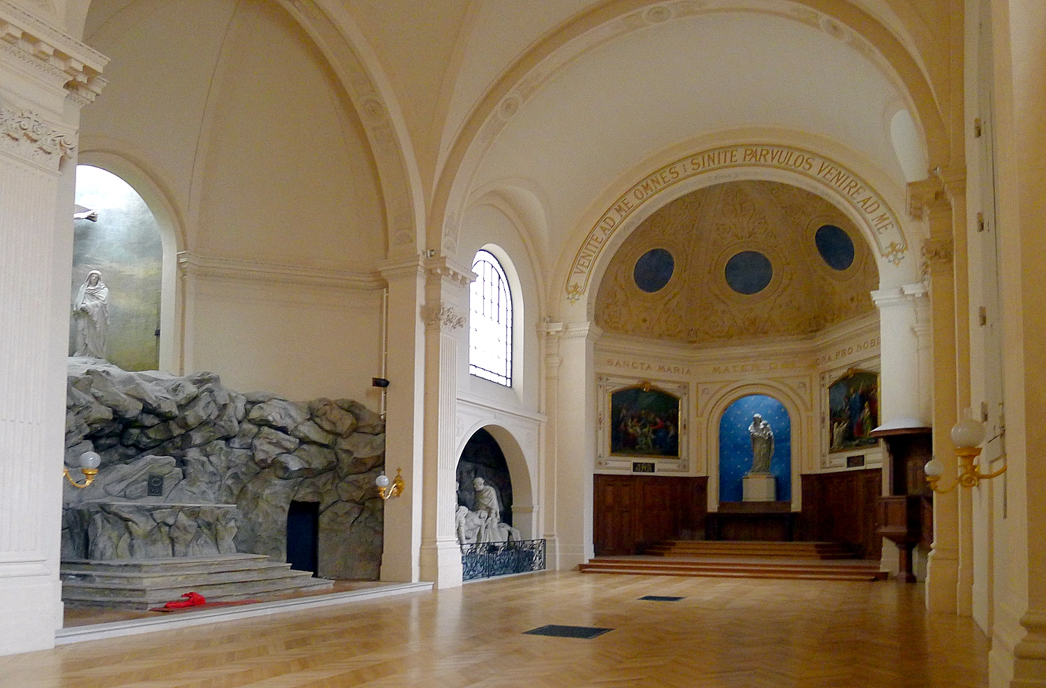 Saint-Roch church - Paris